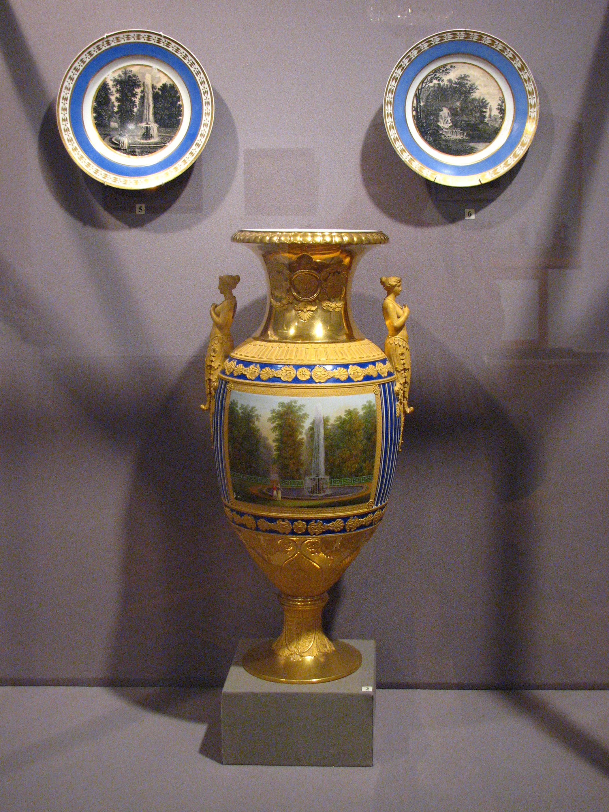 Saint Petersburg. Exposition «Old Petersburg» (in the Engineering house of the Peter and Paul Fortress). In a center: a vase with the image of the Big fountain in Peterhof. From above at the left: a plate with the image of the Big fountain in Peterhof. From above on the right: a plate with the image of the Big cascade in Pavlovsk. Imperial porcelain factory; the second quarter of a XIX-th century.